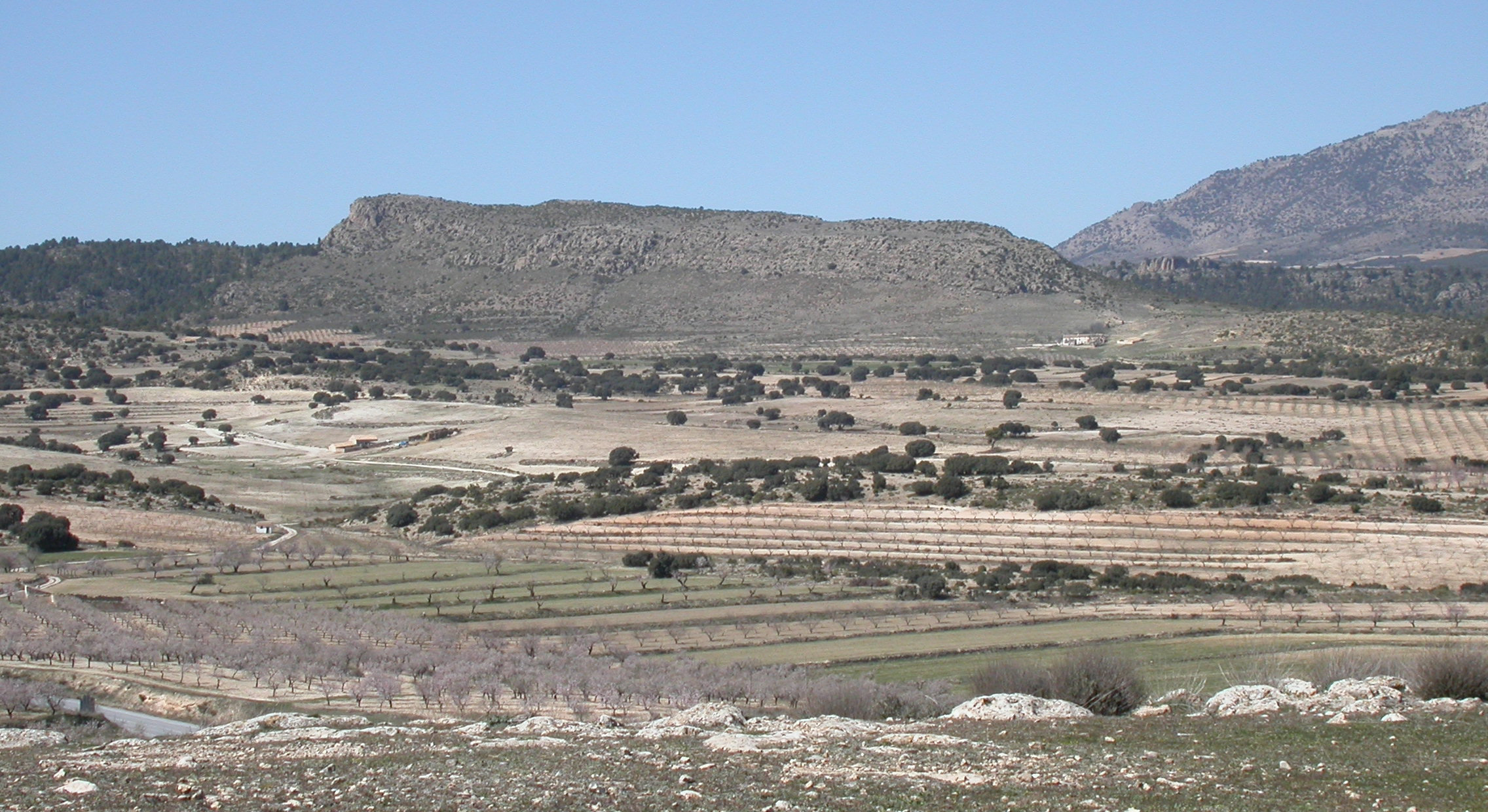 Molata de Casa Vieja (1.445 m) near Almaciles (Spain). This was the place of an important iberian oppidum. SE view.